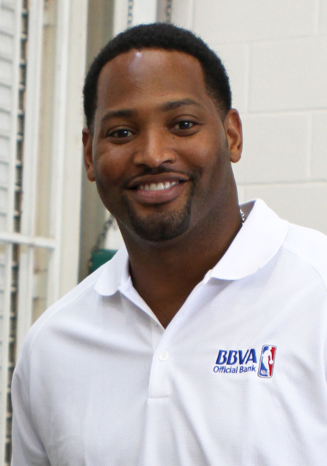 Horry took a moment to talk to UTPA's Men's Basketball Head Coach Ryan Marks at Friday's event.